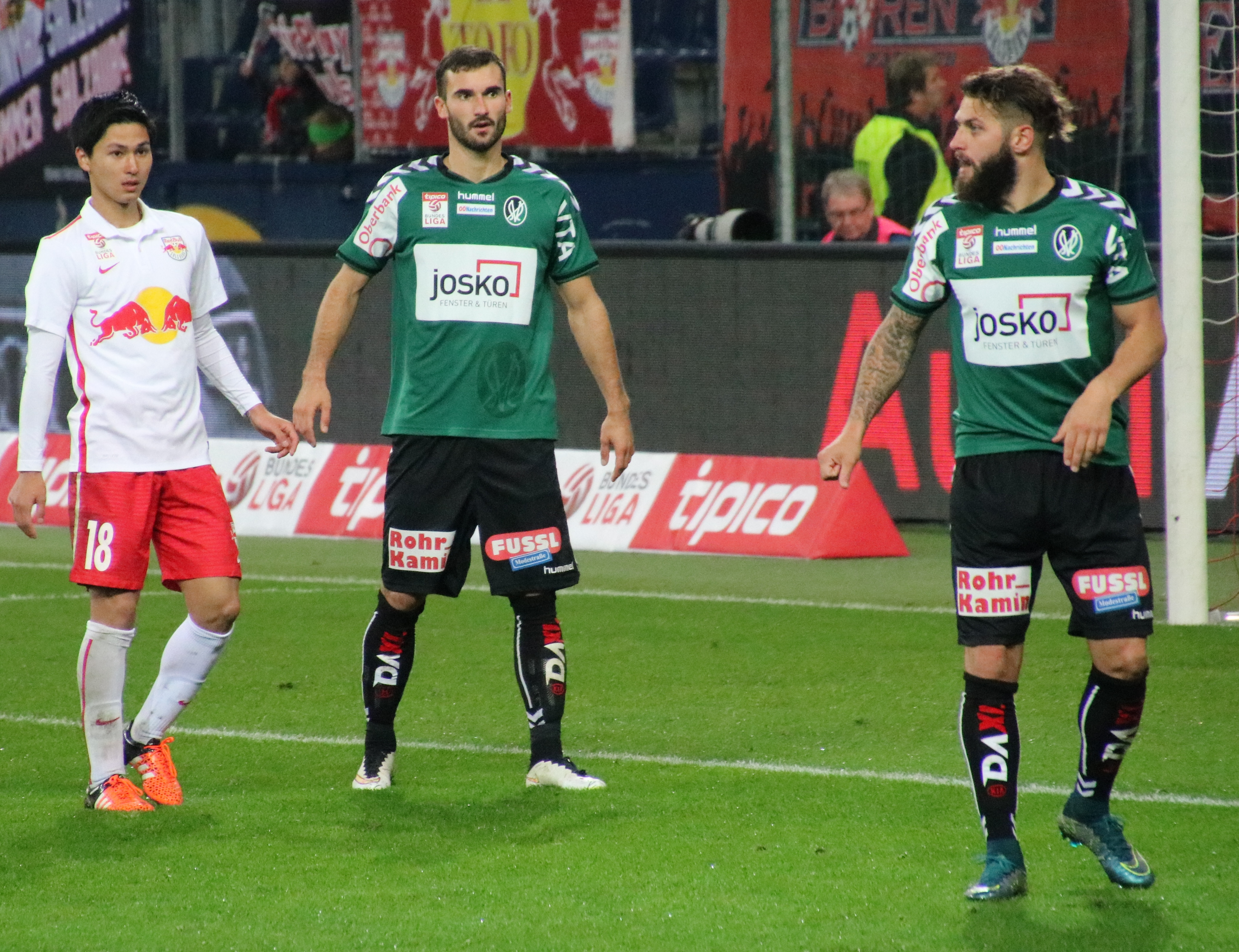 league match Austrian Bundesliga 13th round